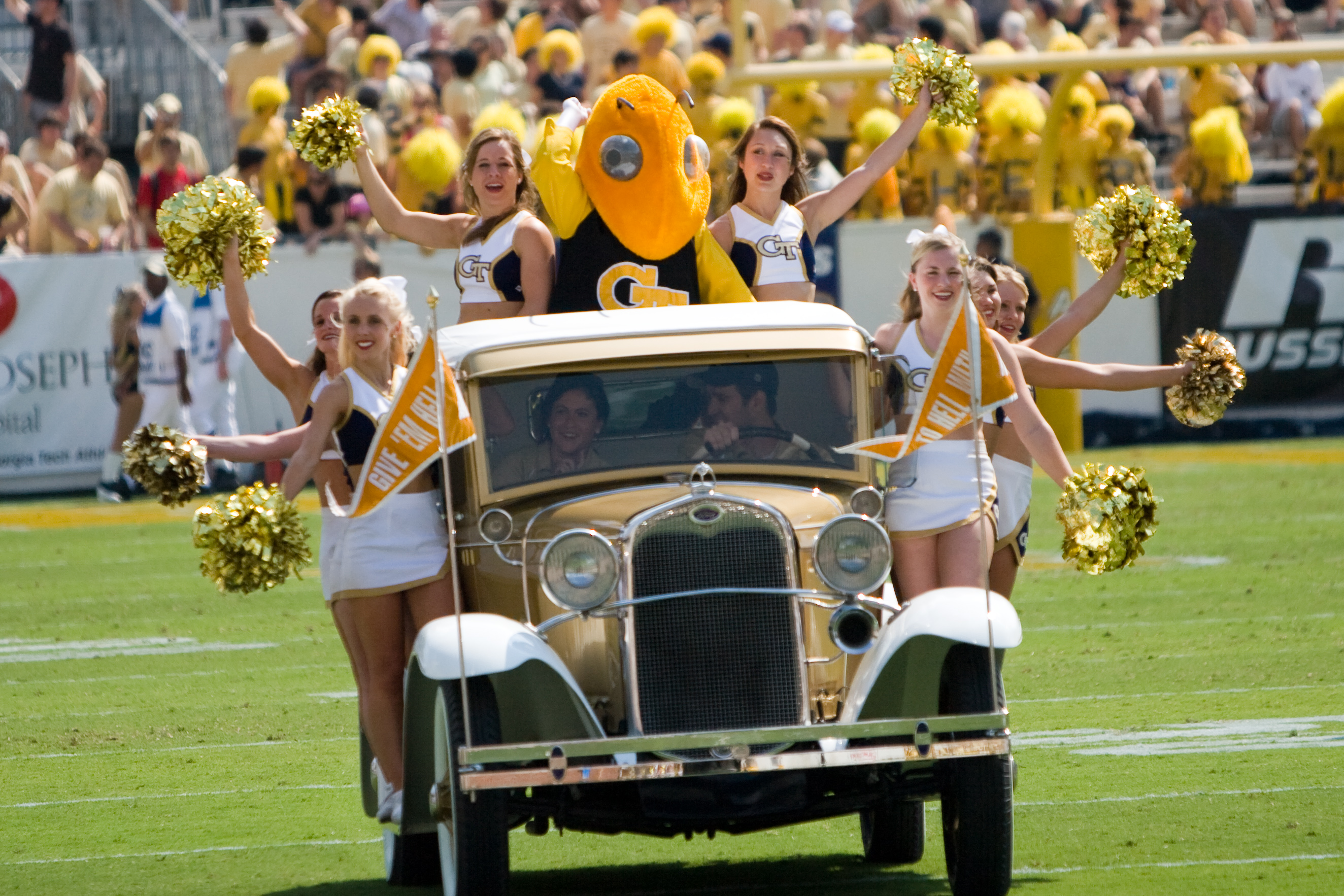 The Ramblin' Wreck and Georgia Tech cheerleaders at Georgia Tech-Samford University college football game, September 8, 2007.